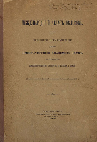 The International Cloud Atlas of 1896 was published by the Imperial Academy of Sciences of the Russian Empire in 1898